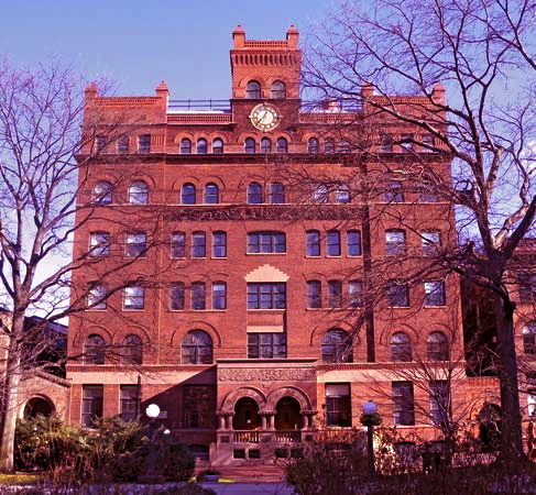 The Pratt Institute, New York